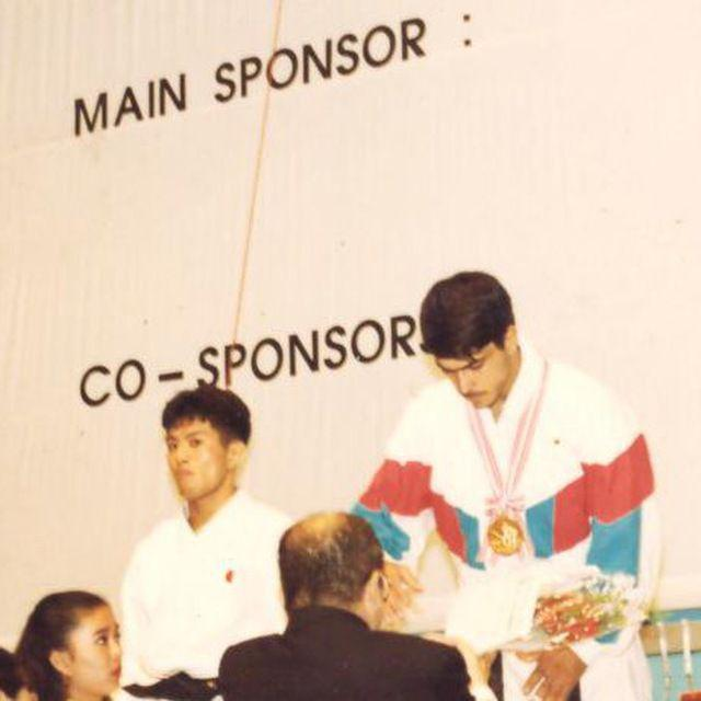 دریافت اولین مدال طلای جودوی آسیا توسط زین العابدین حقانی در مسابقات قهرمانی آسیا در ویتنام در سال 1375